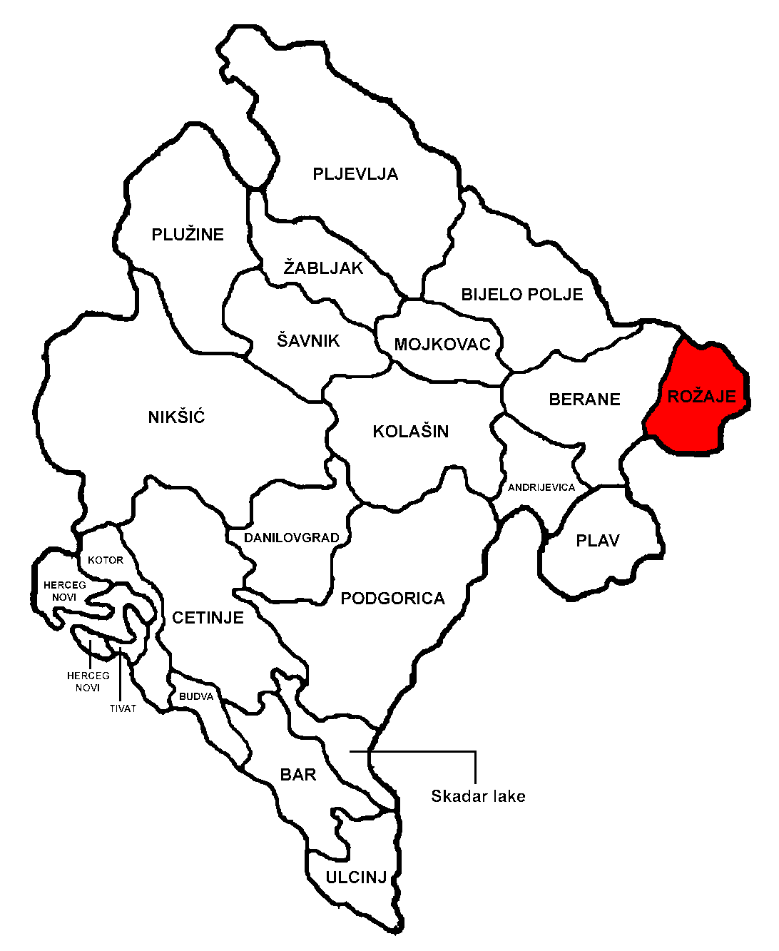 Location of Rožaje within Montenegro